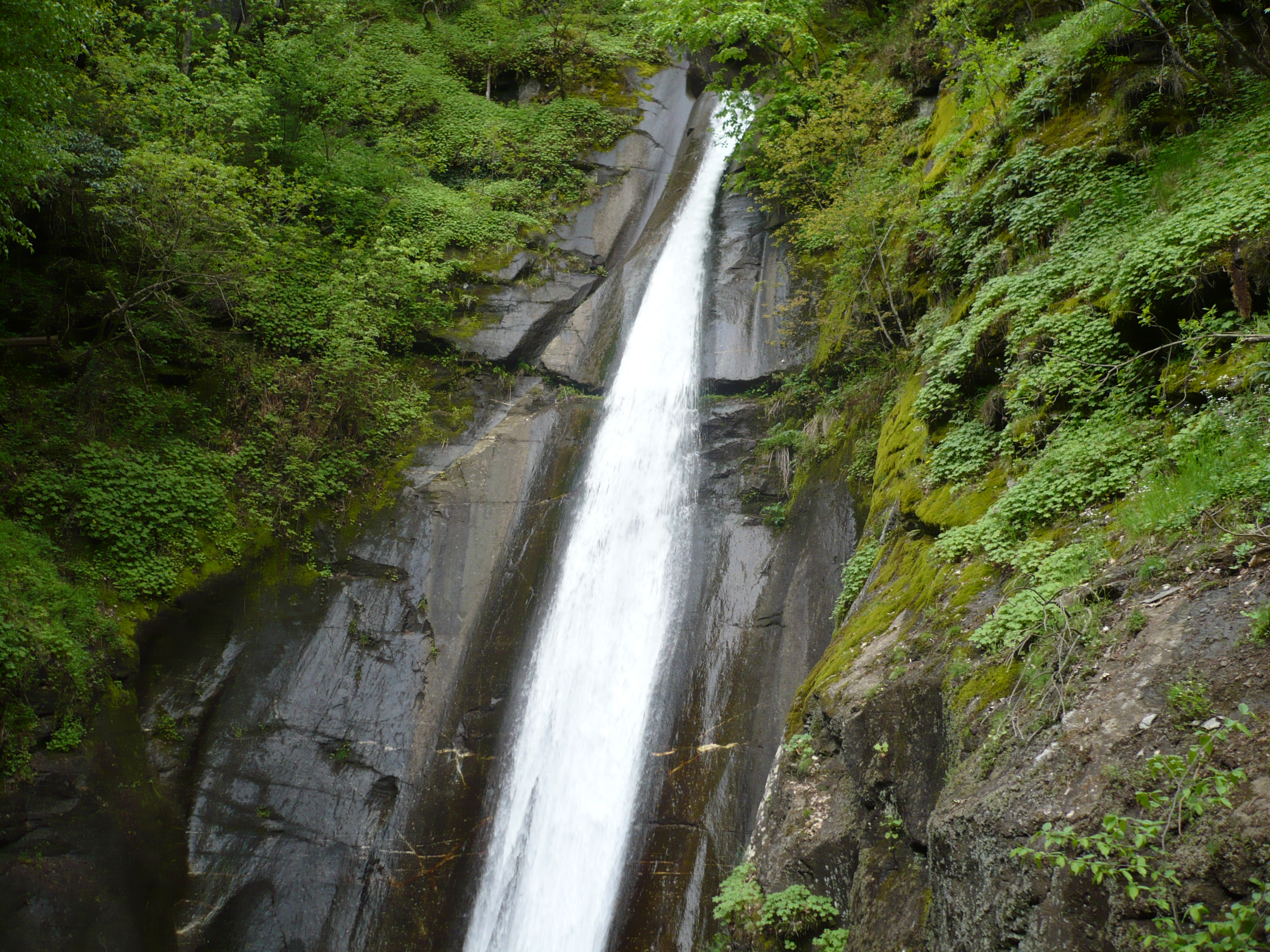 Smolari Waterfall, Macedonia Ова е фотографија на природна област во Македонија со код: C24 This is a a photo of a natural area in Macedonia with id: C24